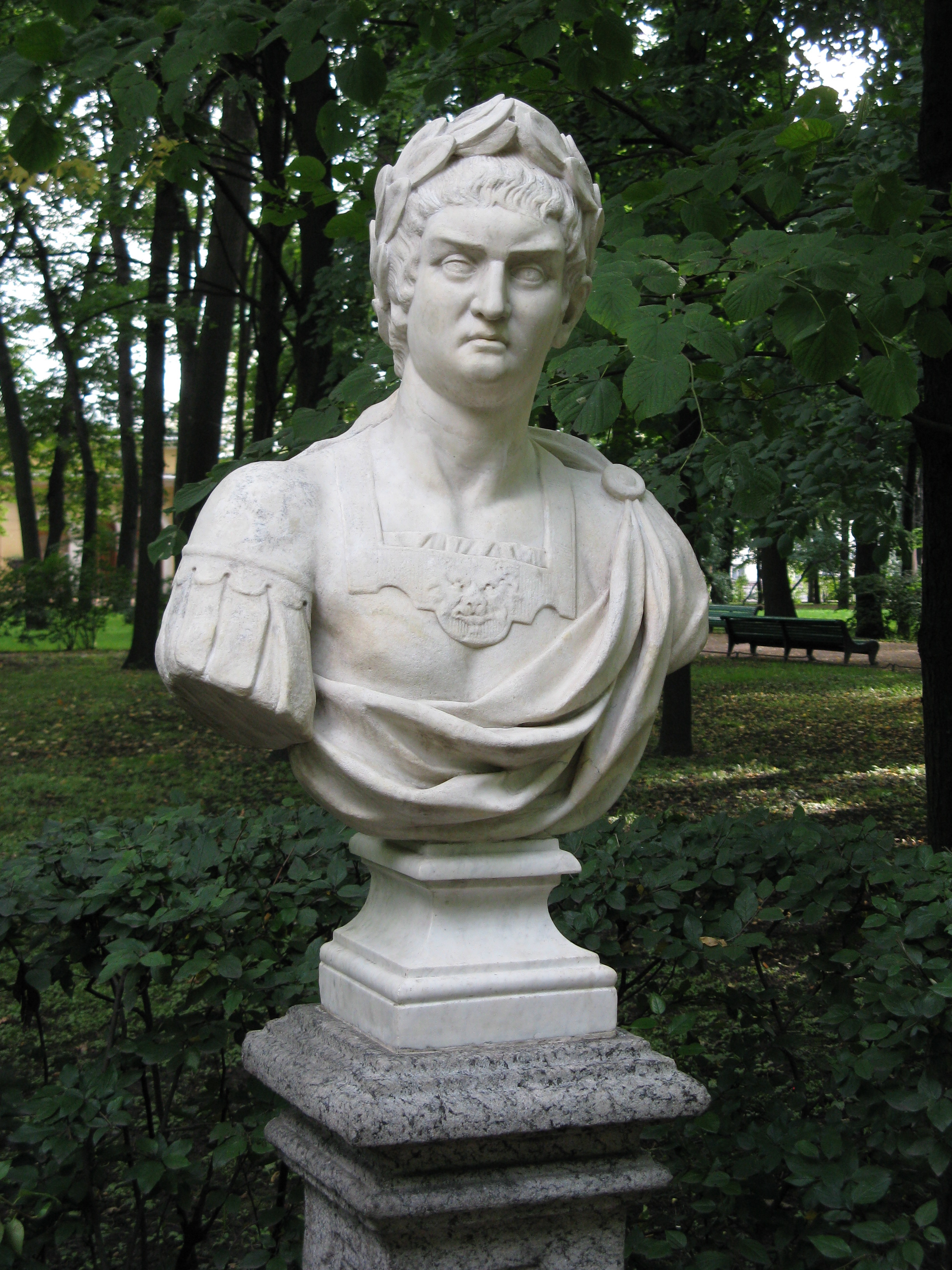 Bust of Nero at Summer Garden.